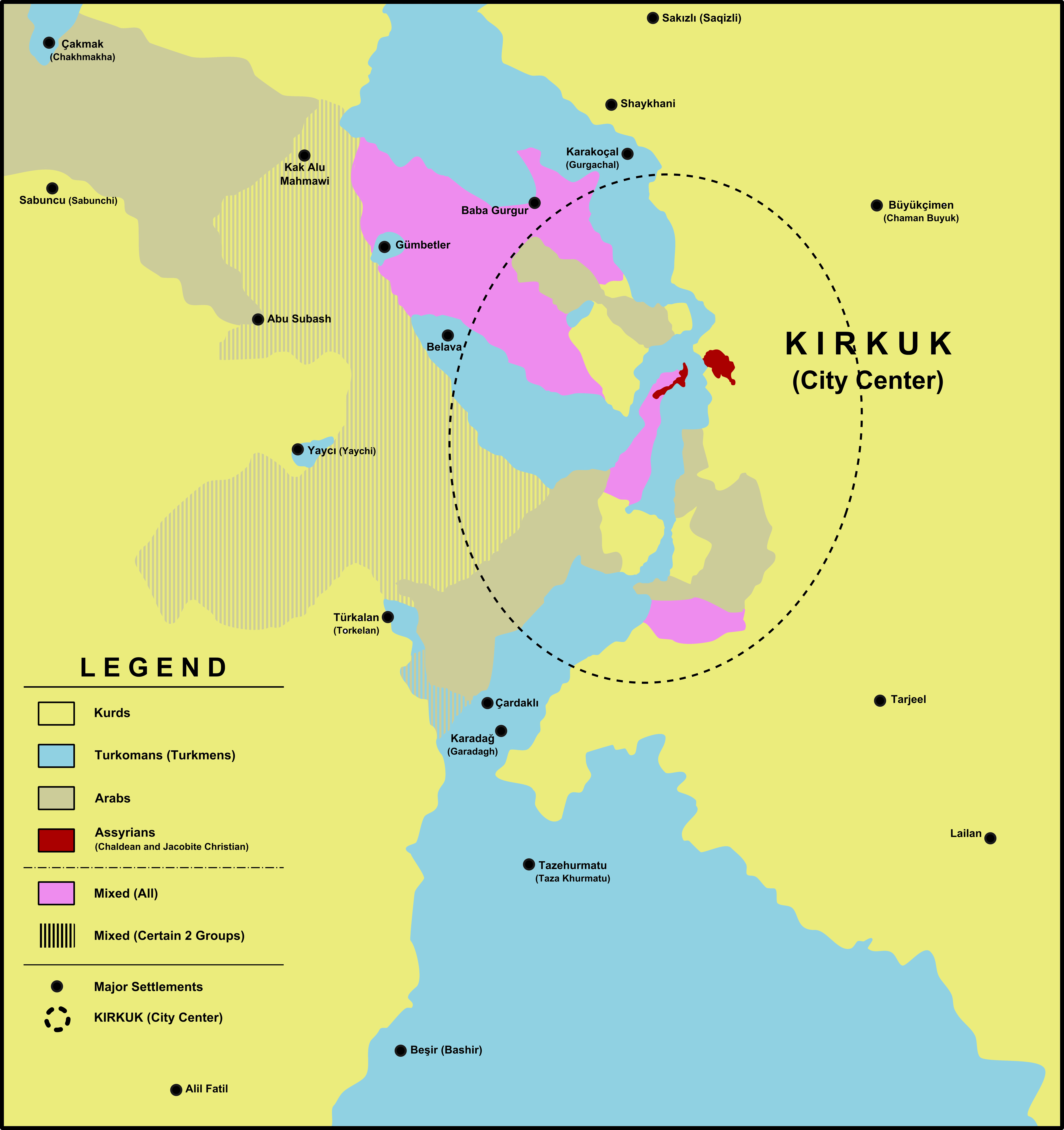 Demographical situation of the ethnic groups in Kirkuk and its environs in 2014 (At the time of the Kurdish capture of the city and mass Kurdish migration from north). A combination of sources was used: Primary Michael Izady 1 - University of Columbia Other Michael Izady 2 - University of Columbia Endangered Community: The Turkoman Identity in Iraq, Oğuzlu, H. Tarık, 2004, Carfax Publishing 1 Cecil John Edmonds, "The Kurds of Iraq," Middle East Journal, Winter 1957, p. 59; idem, "The Kurds and Revolution in Iraq," Middle East Journal, Winter 1959, p. 10. The Report of Mr. Young, Young, Wikie, Mosul, 5th April 1910, The National Archives, UK, File No: FO 371/1008 The Turkmen Reality in Iraq, Hürmüzlü, Erşat, 2009, ISBN: 9789756849118 The Demographic Situation of Kirkuk and Iraqi Constitution, Hürmüzlü, Erşat. 1 ORSAM